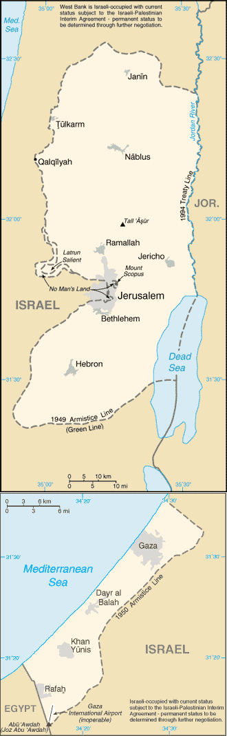 Map of West Bank and Gaza Strip